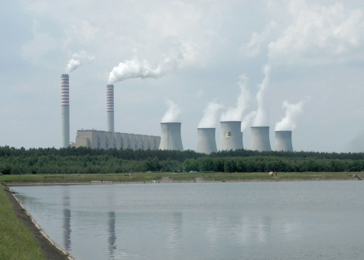 Power plant in Bełchatów